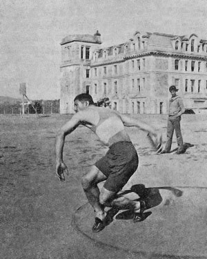 Migir Migiryan, participant of the Fifth Olympic games in Stockholm, Robert College campus, “Marmnamarz”, July 5, 1912